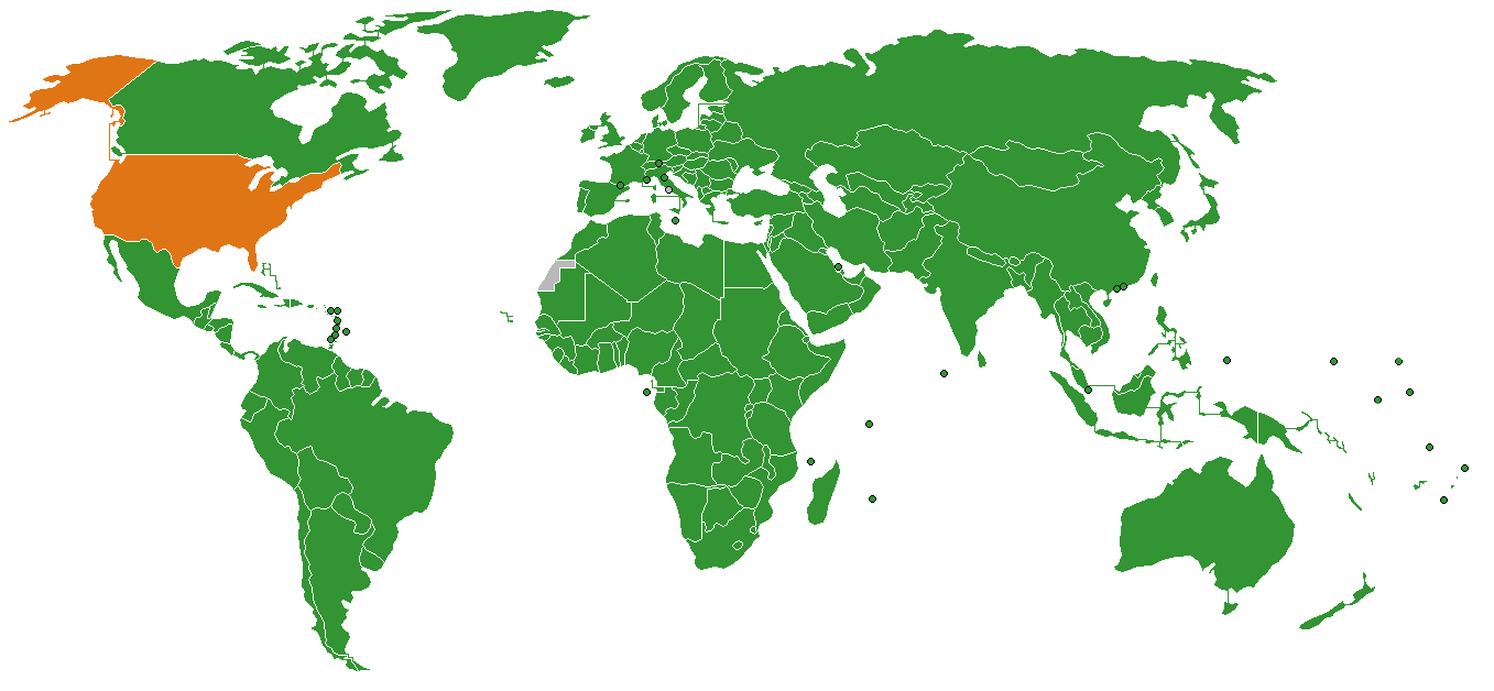 Map of the world indicating the United States of America and the member States of the United Nations. For use in United States and the United Nations and similar articles.